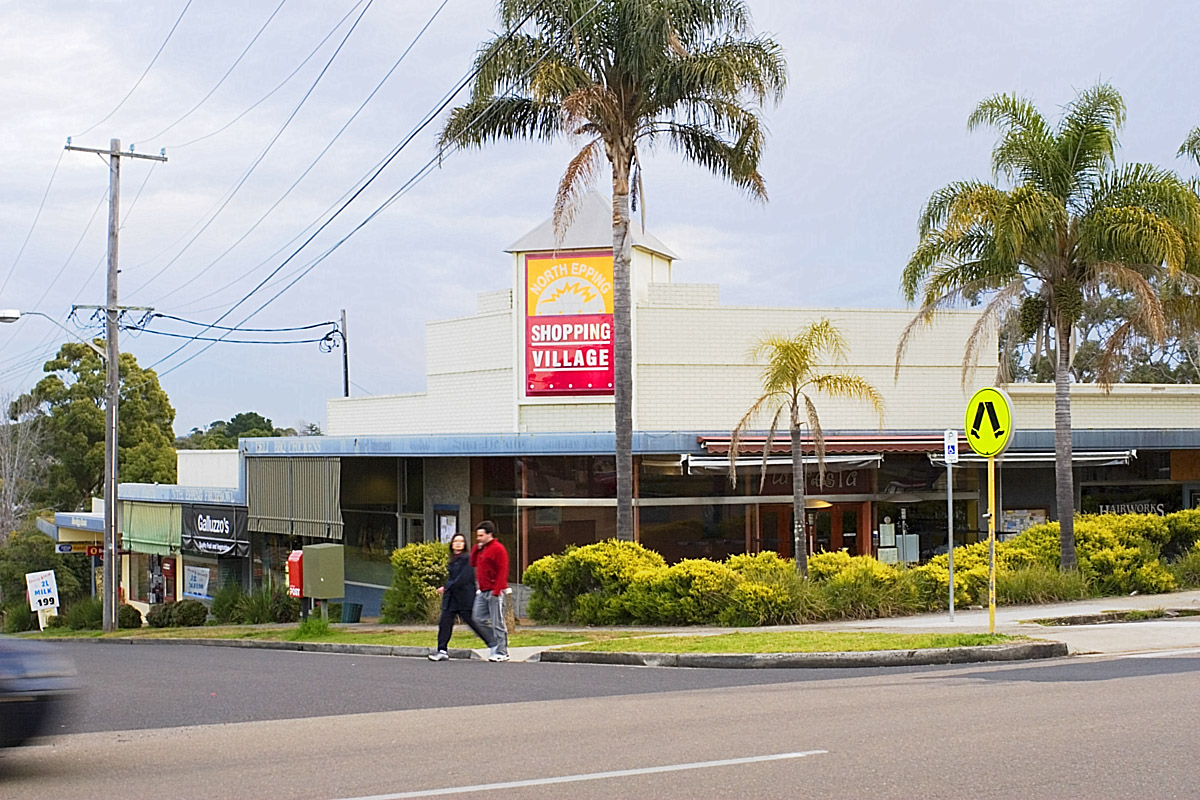 North Epping retail centre